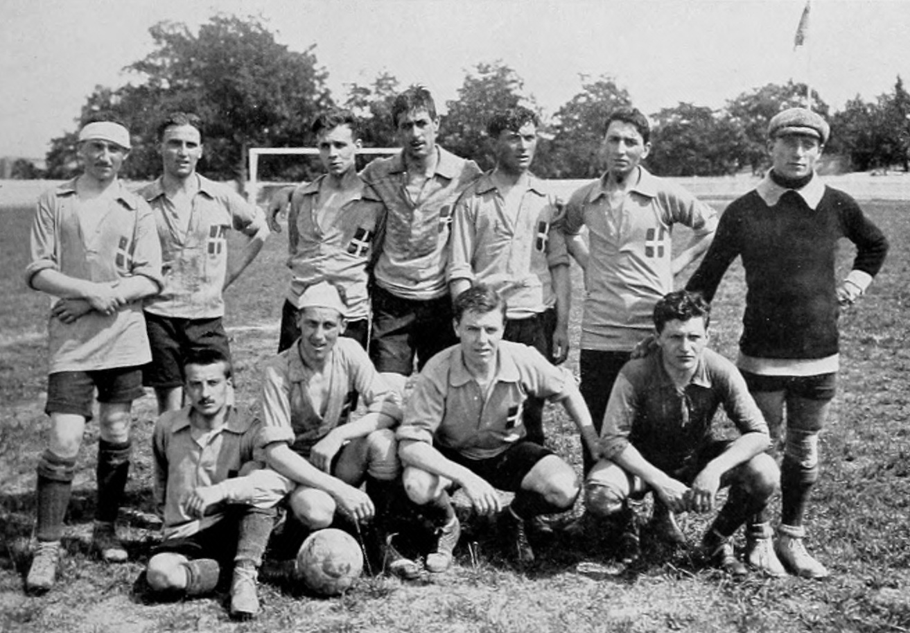 The Italian national football team at the 1912 Summer Olympics. Standing: Binaschi, Bontadini, Berardo, Milano I, Leone, De Vecchi, Campelli. Bended: De Marchi, Sardi, Zuffi, Mariani.